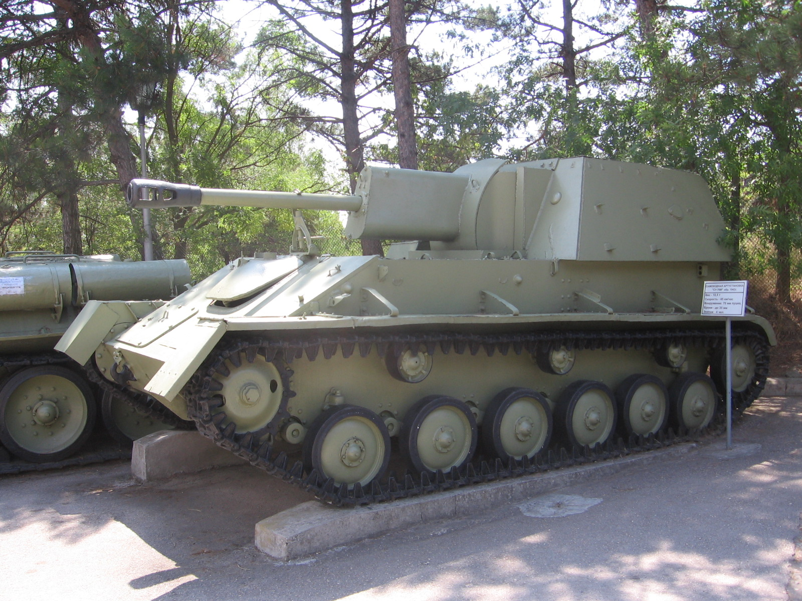 Soviet SU-76M, manufactured in 1949, is displayed at the Museum of Heroic Defense and Liberation of Sevastopol on Sapun Mountain in Sevastopol.